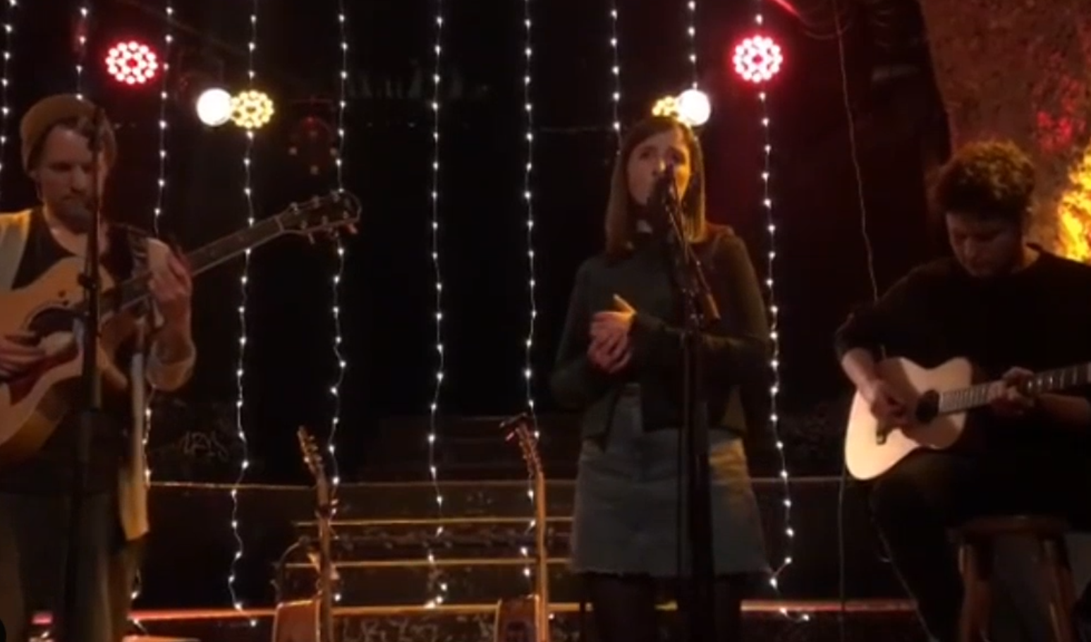 Varley during Madeline Junos Acoustic Tour 2019 at Milla, Munich.